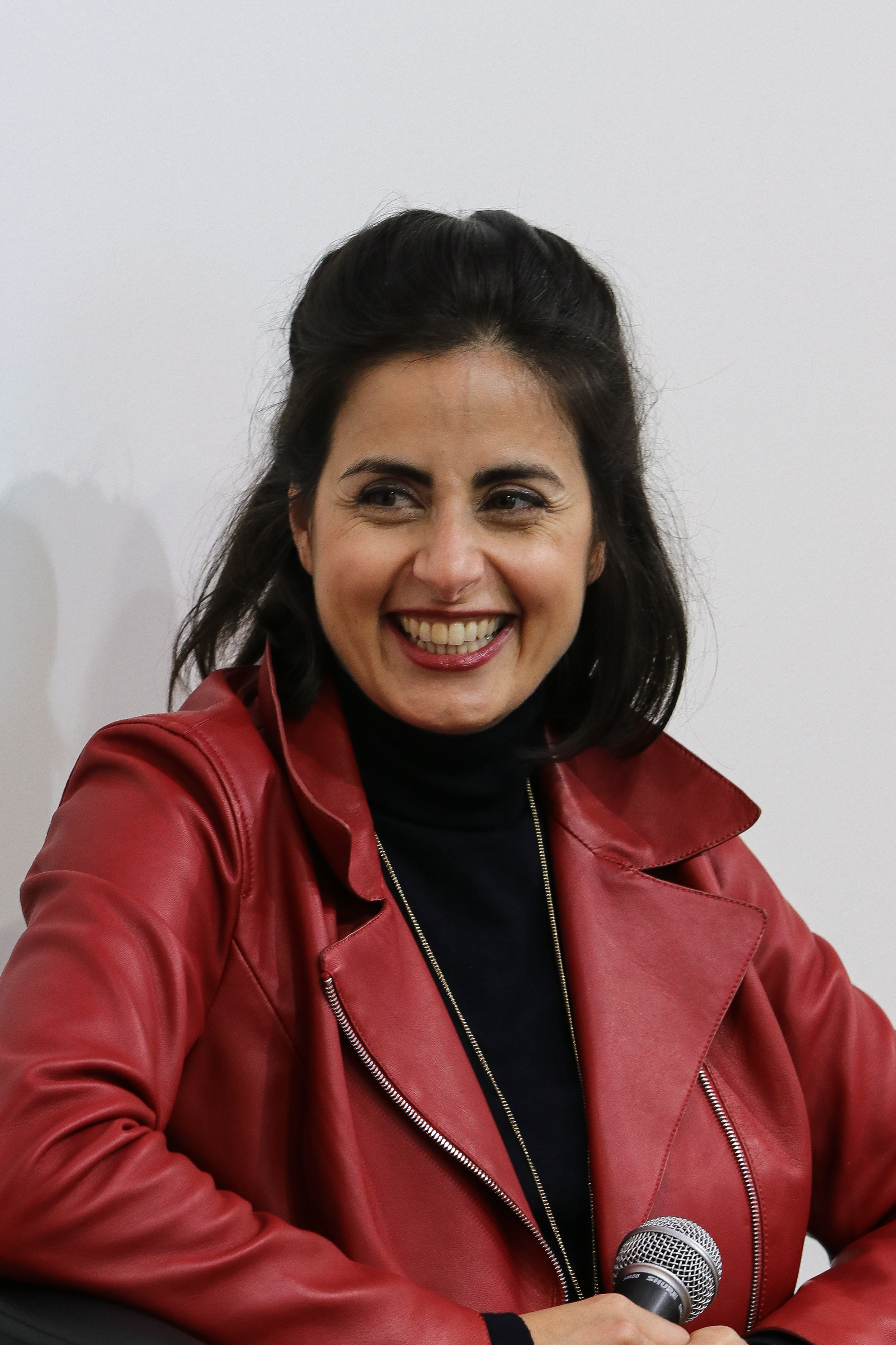 Sineb el-Masrar at the Frankfurt bookfair 2018.